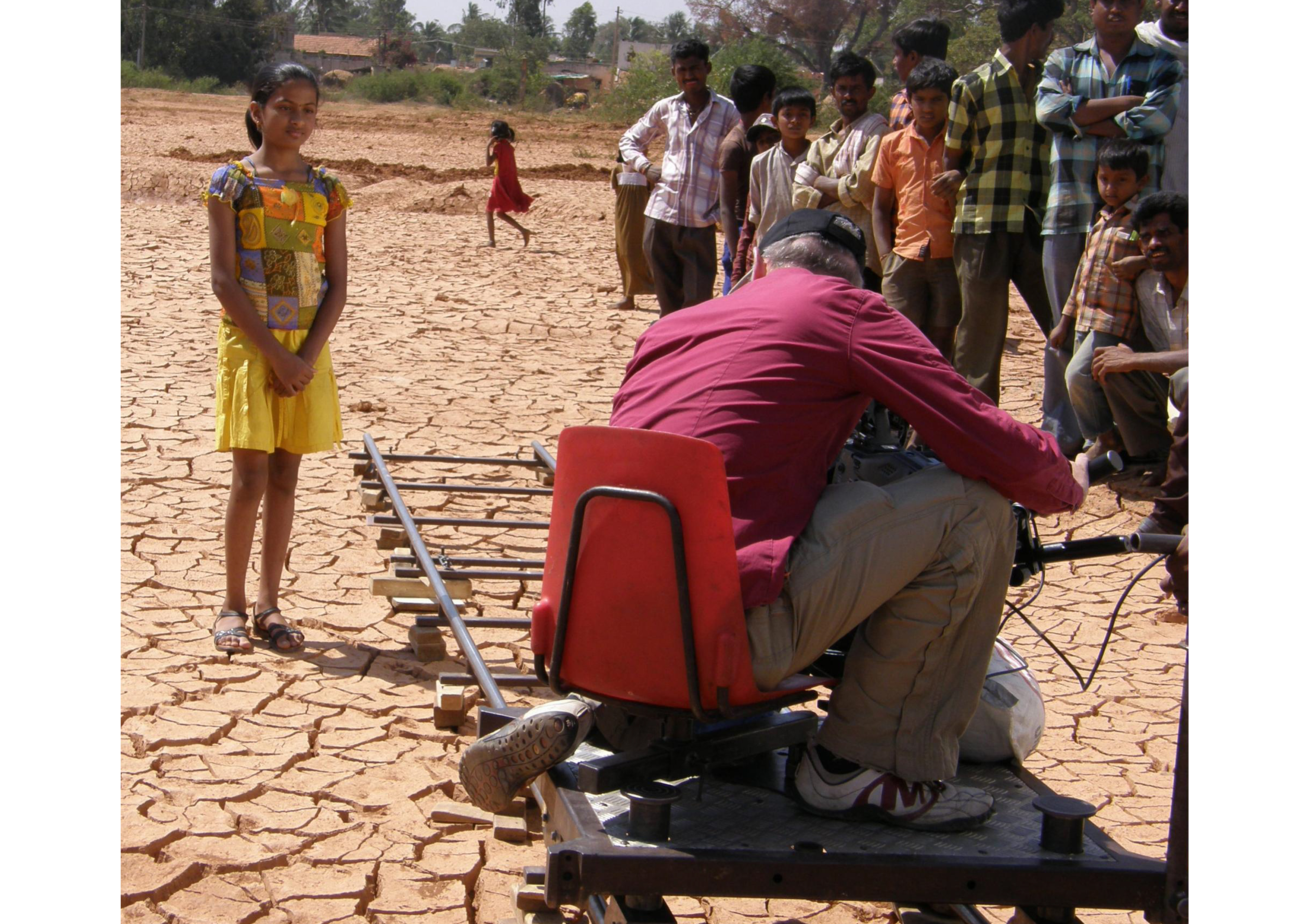 Lakshmi being shot by a documentary with National Geographic